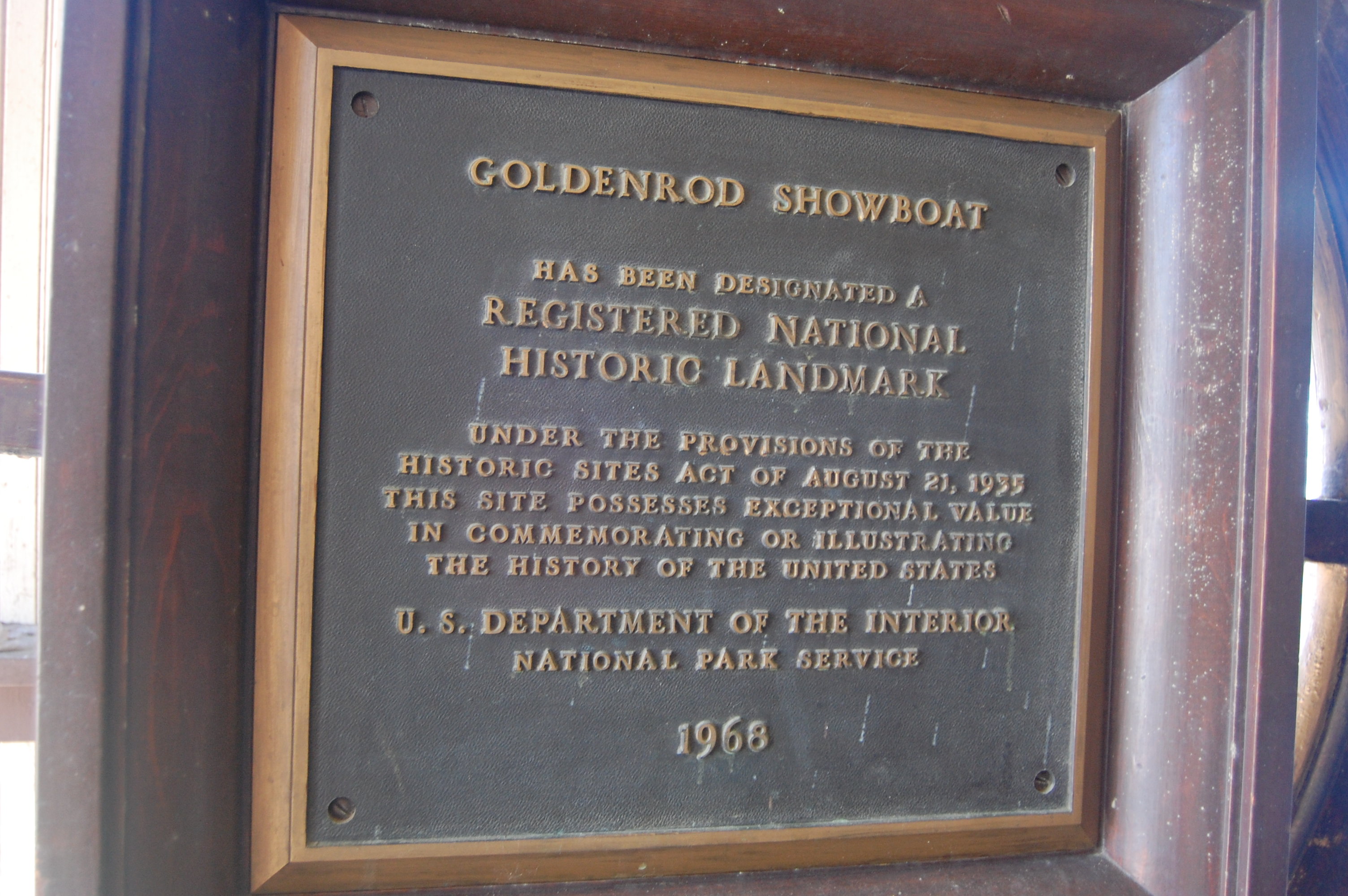 The plaque that states the National Historic Register status of the Goldenrod.